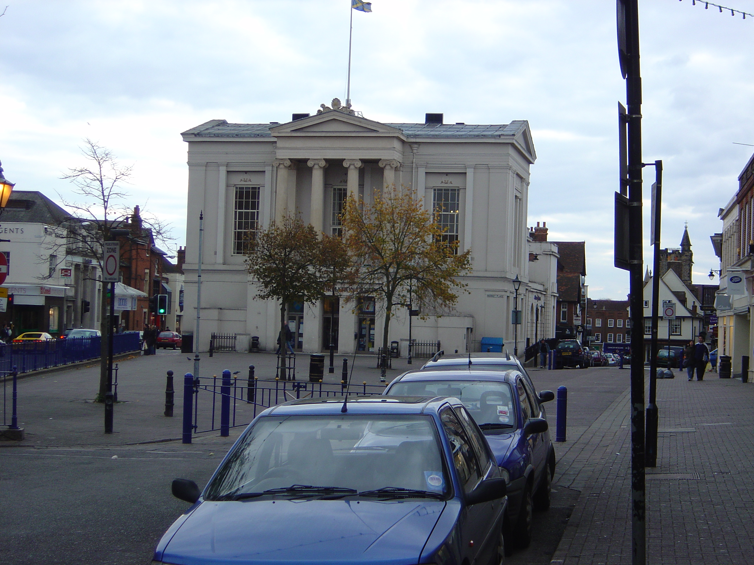 The Old Town Hall and Market Place, viewed from St Peter's Street in St Albans.